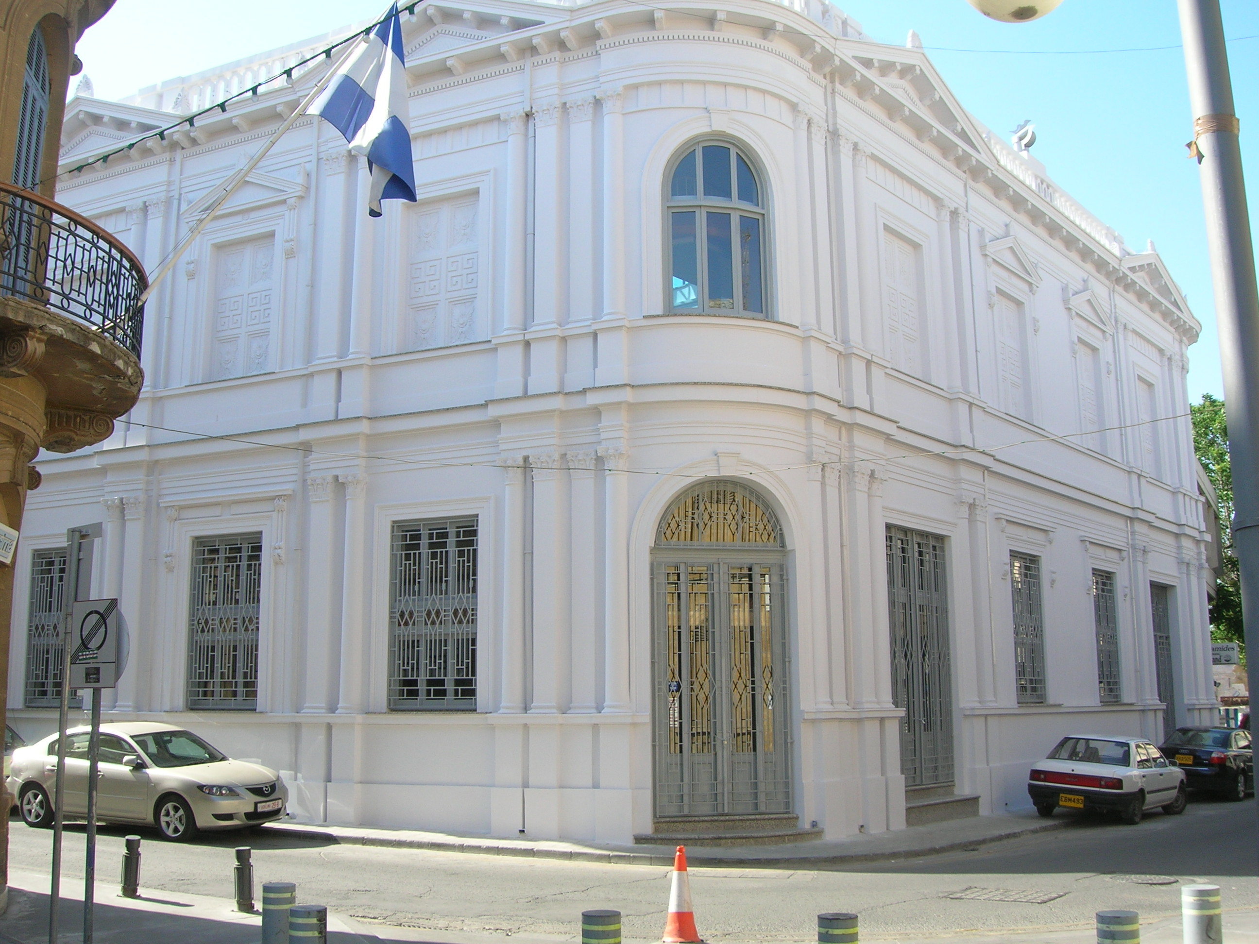 This building housed Ionian Bank's branch in Nicosia.